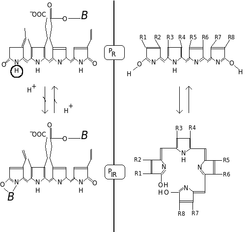 Two hypothesis, explaining the light - induced phytochrome conversions (PR - red form, PIR - far red from). The left, more advanced hypothesis summarises the scientific article Britz SJ, Galston AW.. Physiology of Movements in the Stems of Seedling Pisum sativum L. cv Alaska : III. Phototropism in Relation to Gravitropism, Nutation, and Growth, Plant Physiol. 1983 Feb;71(2):313-318. The right hypothesis is much older and was first proposed in Walker TS, Bailey JL. Two spectrally different forms of the phytochrome chromophore extracted from etiolated oat seedlings. Biochem J. 1968 Apr;107(4):603–605. The uploaded figure was manually drawn by me, Audrius Meskauskas, summarising scientific material from these two articles, during the time of preparation of my doctoral thesis. I have a PhD in plant physiology.